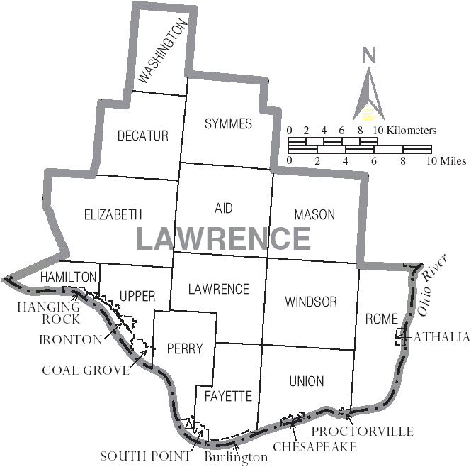 Map of Lawrence County, Ohio, United States with township and municipal boundaries